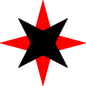 This red and black star has been used as a symbol of Quaker service since the late 19th century unofficially, and was officially adopted (with some changes) by the American Friends Service Committee [1] in 1917. Another variation on it is used by the British organization Quaker Peace and Social Witness [2]. Version with white background.